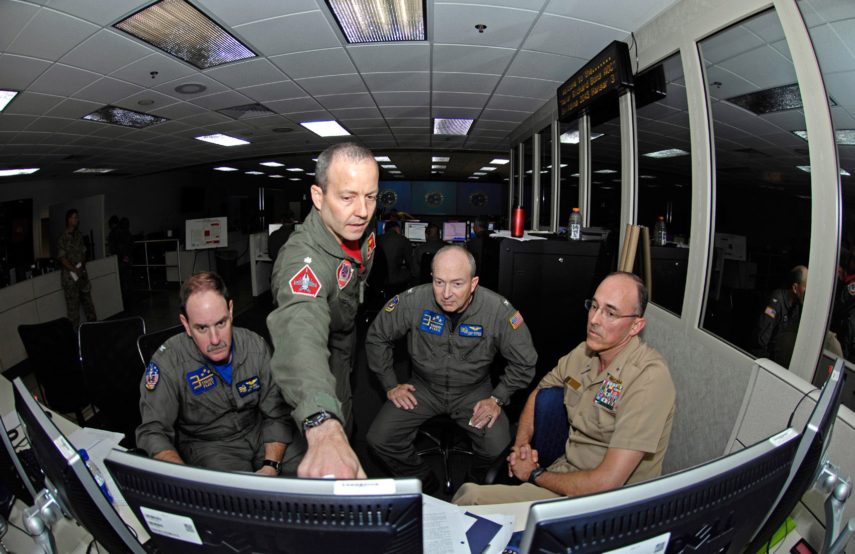 HICKAM AIR FORCE BASE, Hawaii (July 22,2008) Capt. Paul Innis, Cmdr. David Little, Capt. Chris Sprinkle and Cmdr. Doug Anderson discuss a battle strategy in the 613th Air and Space Operations Center at Hickam Air Force Base, Hawaii. The officers are providing command and control for the airpower in Exercise Rim of the Pacific (RIMPAC) 2008. (US Air Force photo by Master Sgt. Chris Vadnais/Released)